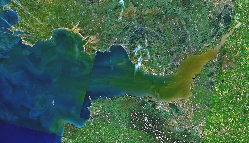 Landsat 7 image of the Bristol Channel